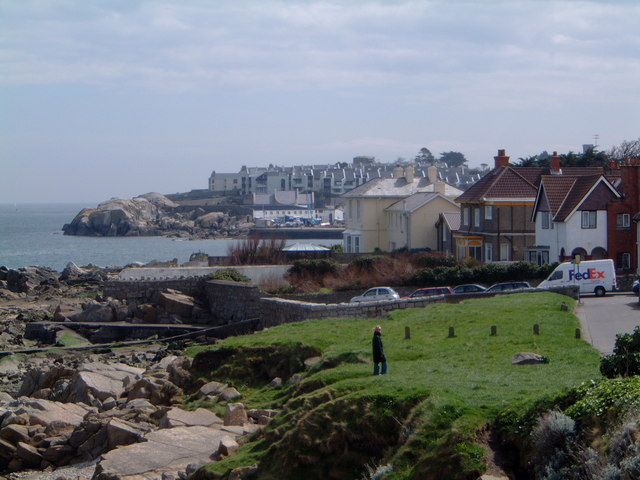 View from outside the Martello Tower. James Joyce lived in the tower for some years. The view is towards Bullock harbour